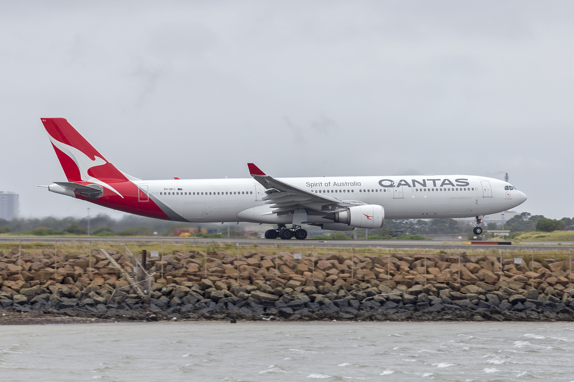 Qantas (VH-QPJ) Airbus A330-303 departing Sydney Airport